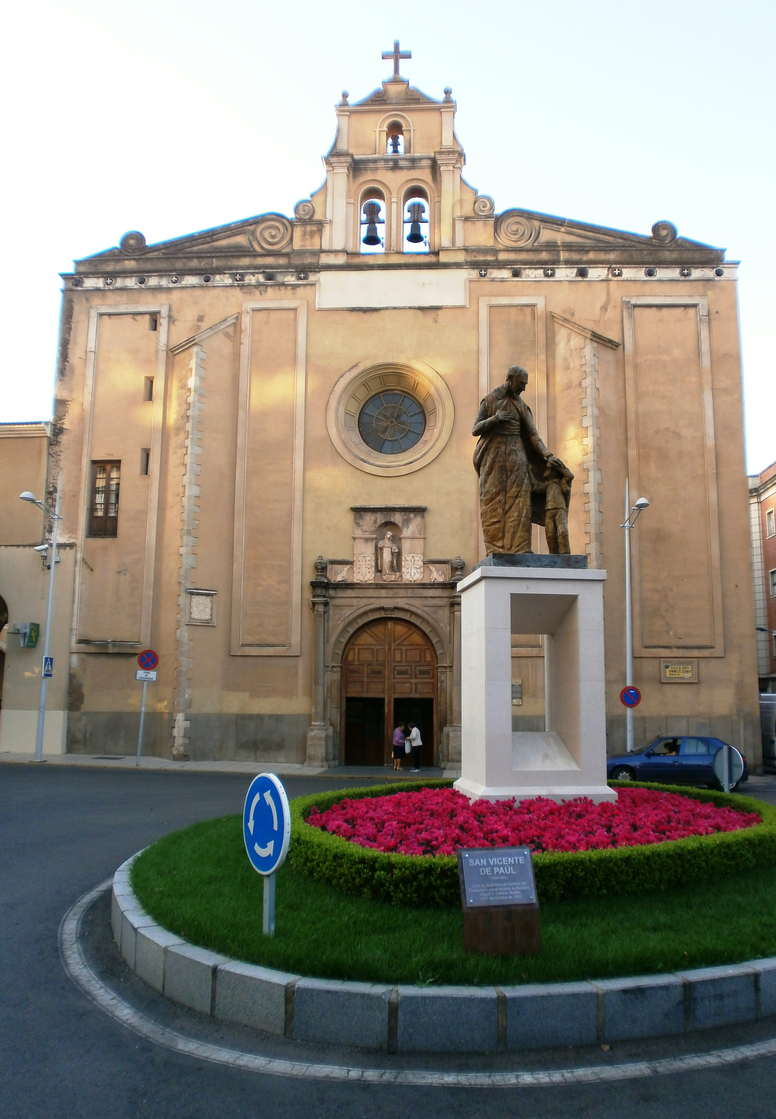 BA-Igl. Santo Domingo-4